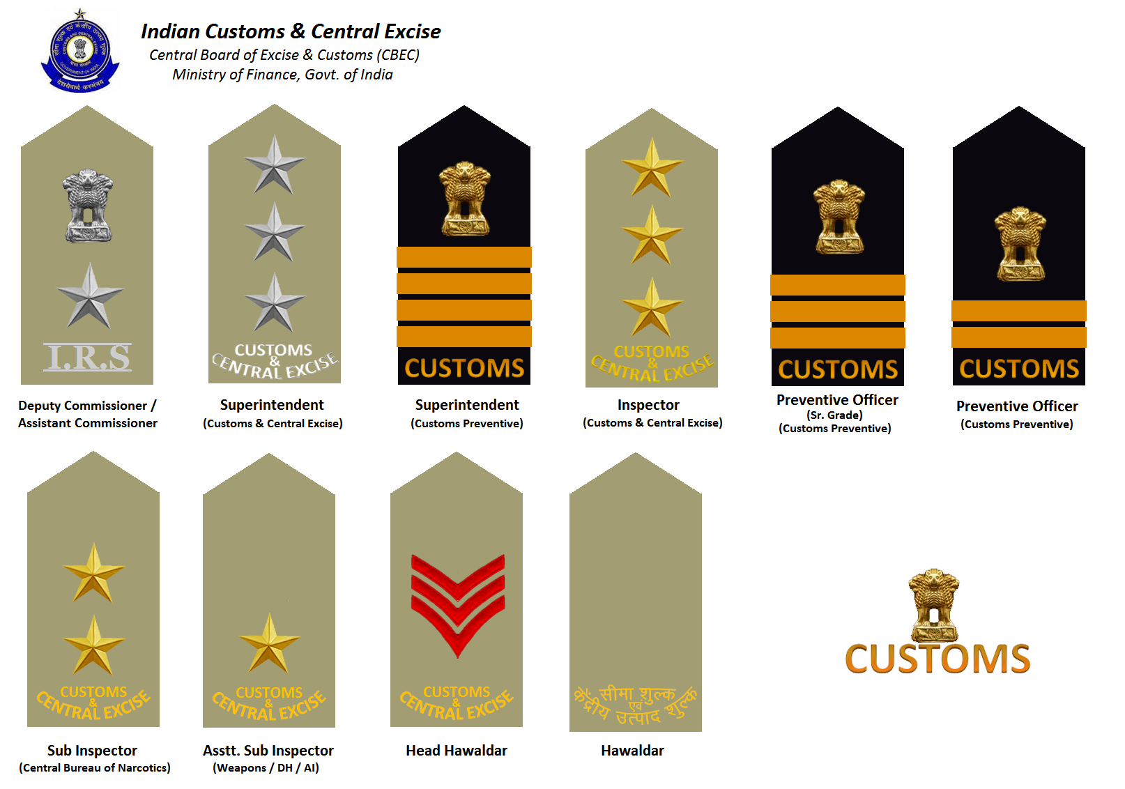 Indian Customs & Central Excise Rank Insignia